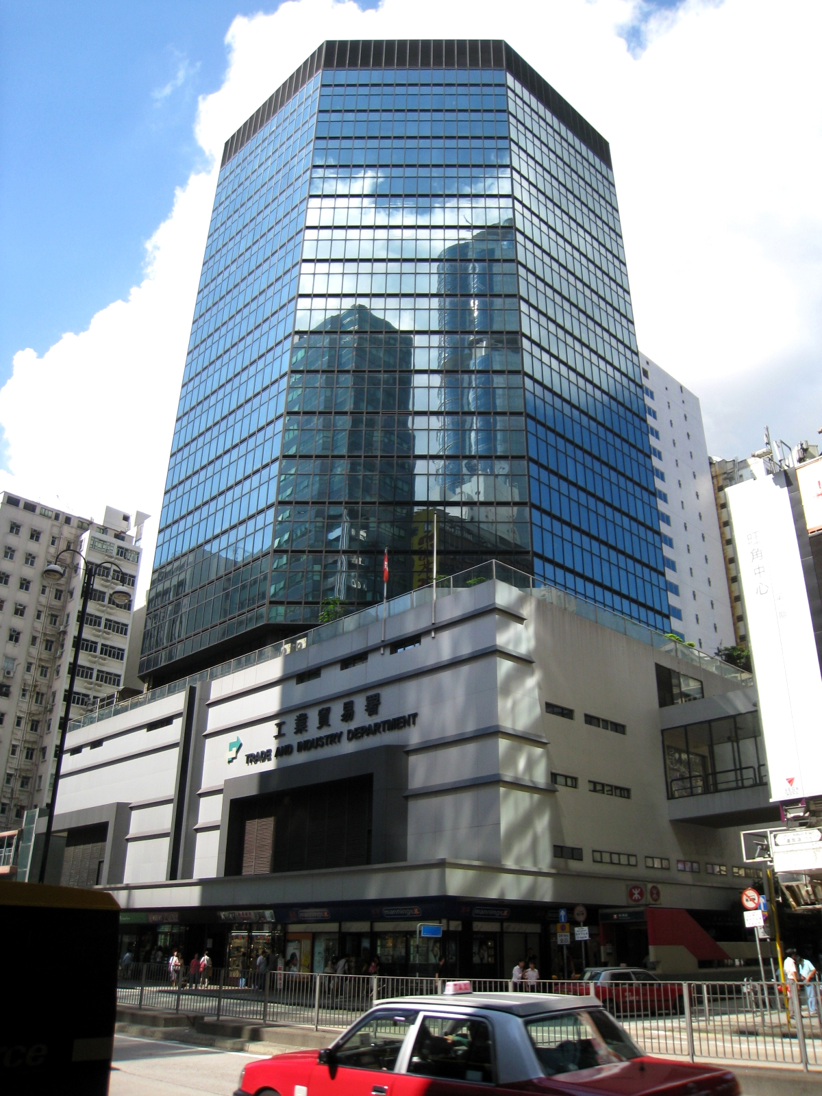 HK Argyle Centre Phase 2 旺角中心第二期